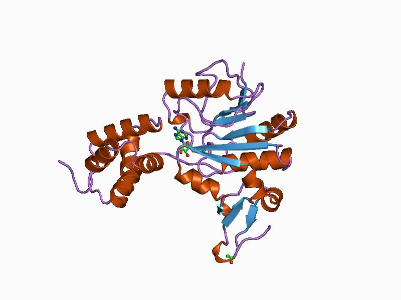 Cartoon representation of the molecular structure of protein registered with 1bc5 code.